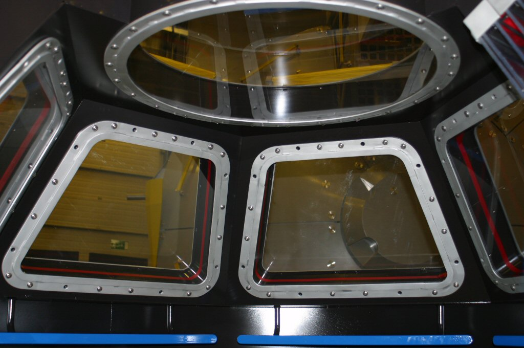 Mockup of the Cupola module for the International Space Station. (self-made photograph)